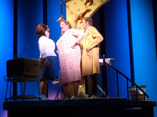 Katrina Rose Dideriksen and Harvey Fierstein in Hairspray